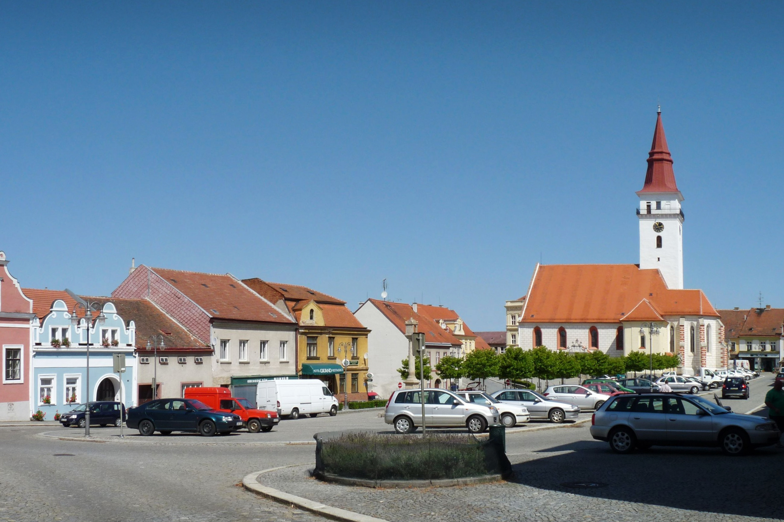 Svobody Square with the Church of Saint in the town of Jemnice, Třebíč District, Czech Republic.